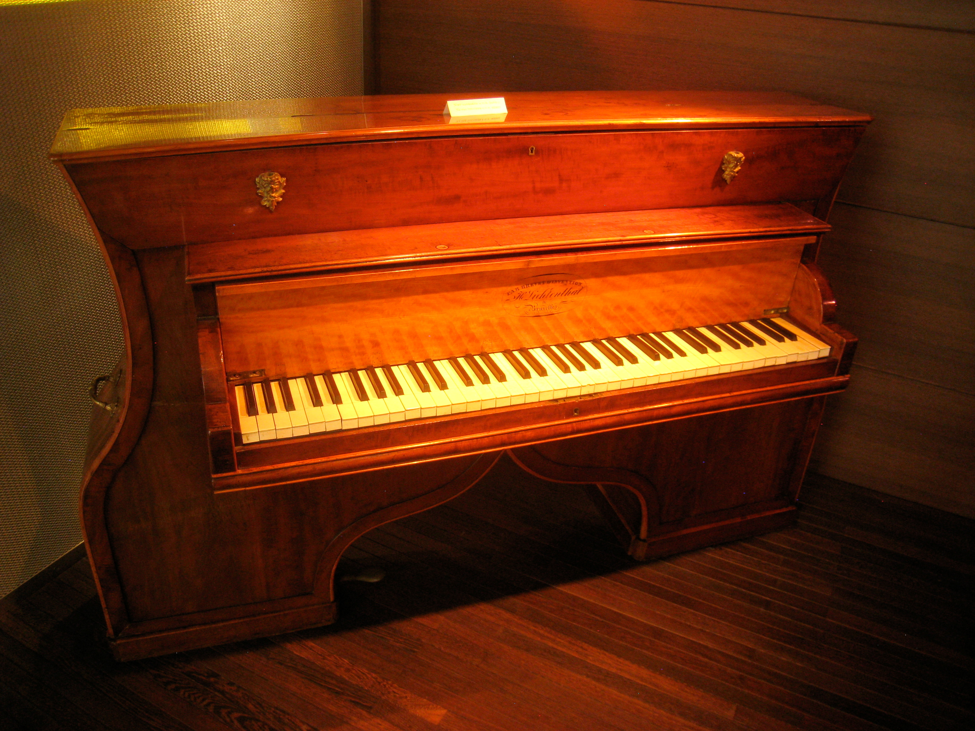 Piano collection in the Musical Instrument Museum, Brussels, Belgium. Herman Lichtenthal, Brussels, ca. 1830.